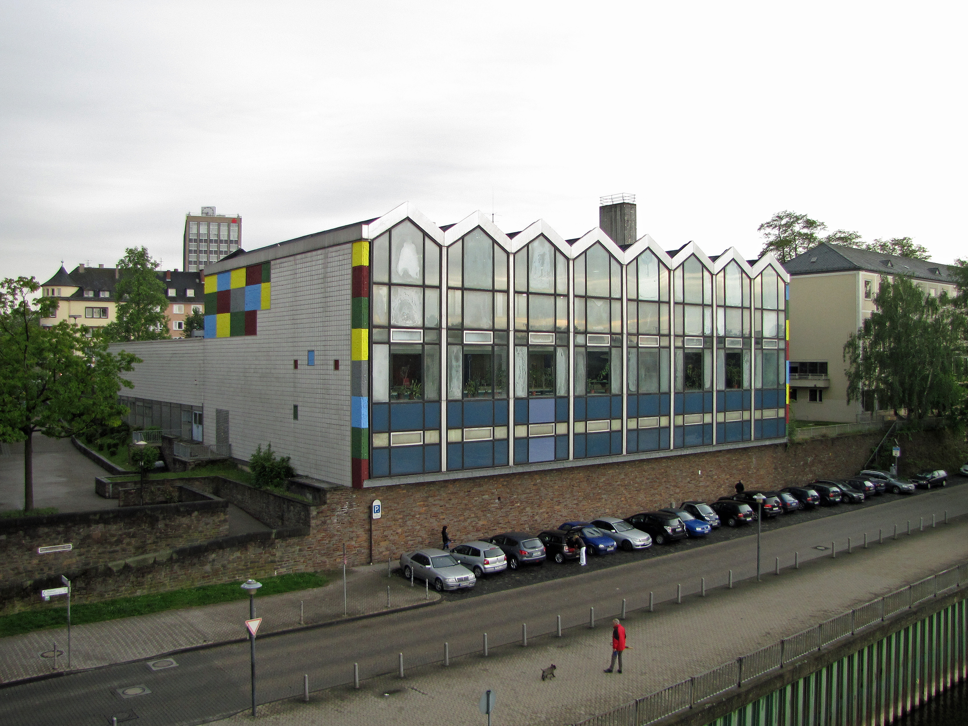 Natatorium in Koblenz